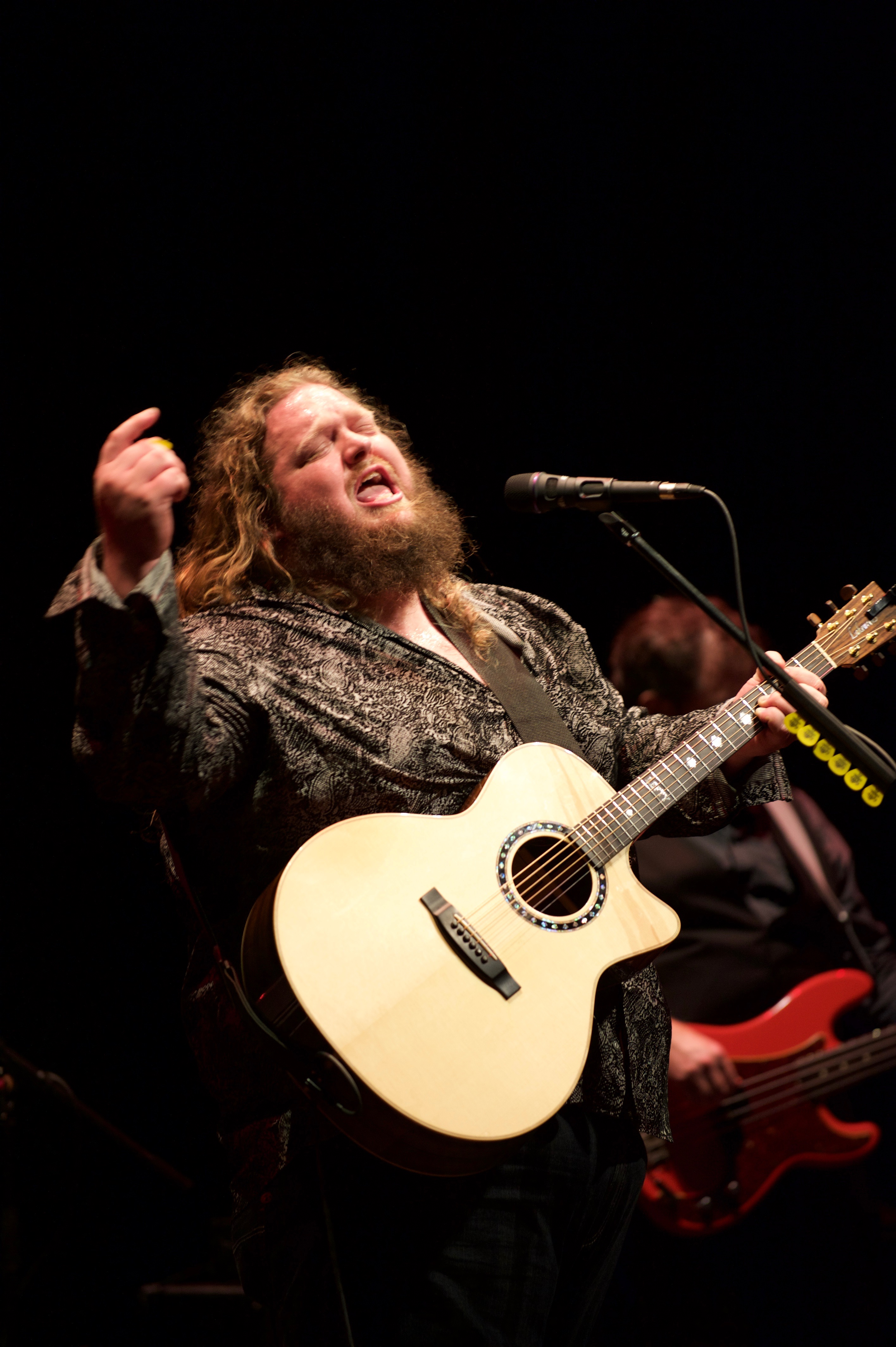 Matt Anderson Performing at the NAC in Ottawa 24 March 2016